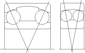 Sven Wingquist self aligning ball bearings, eary 1906 & final version 1907. (SKF)